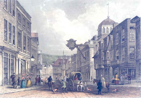 Winchester High Street, Winchester, Hampshire, England.